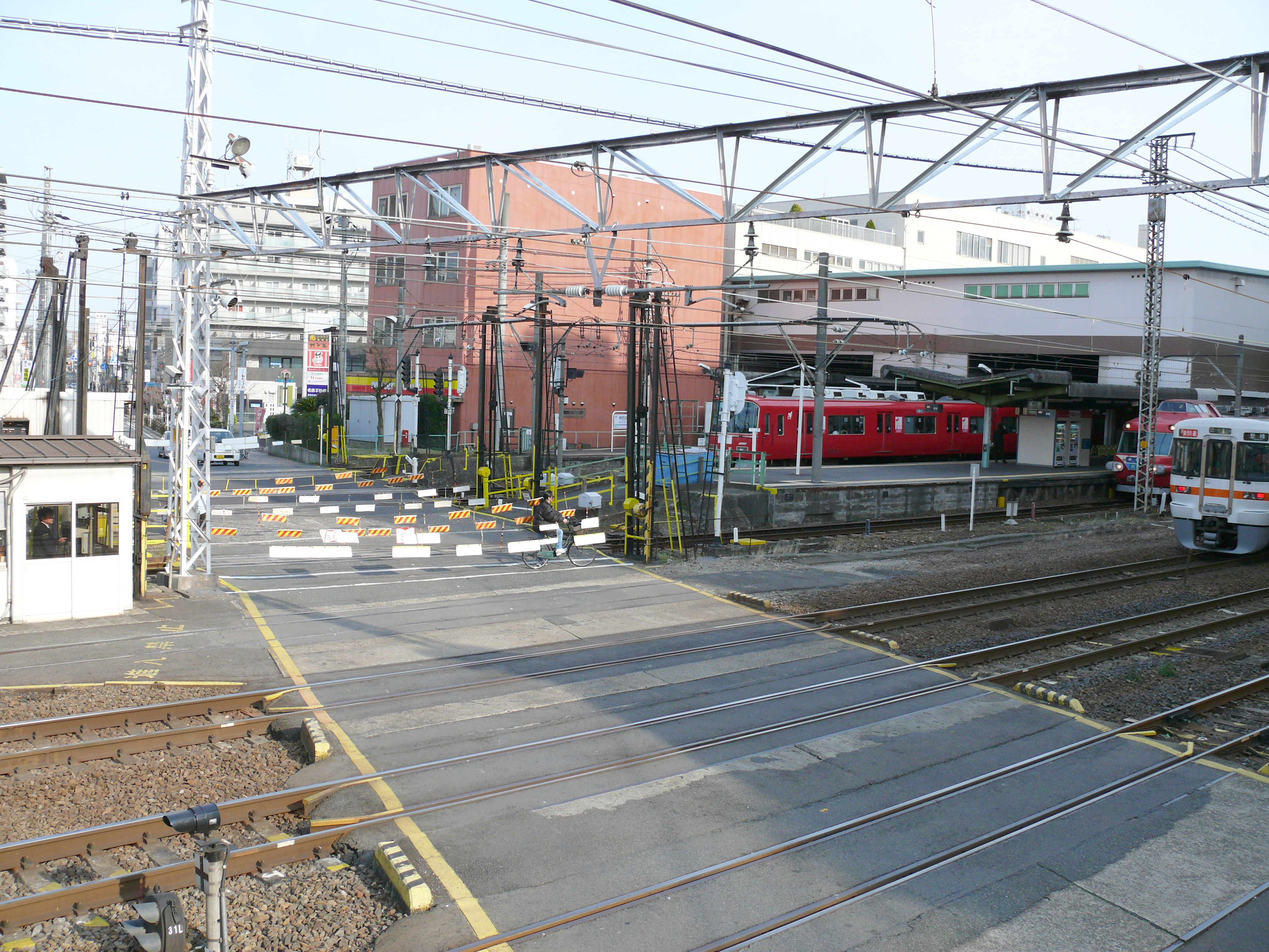 Meitetsu Jingu Mae Station.